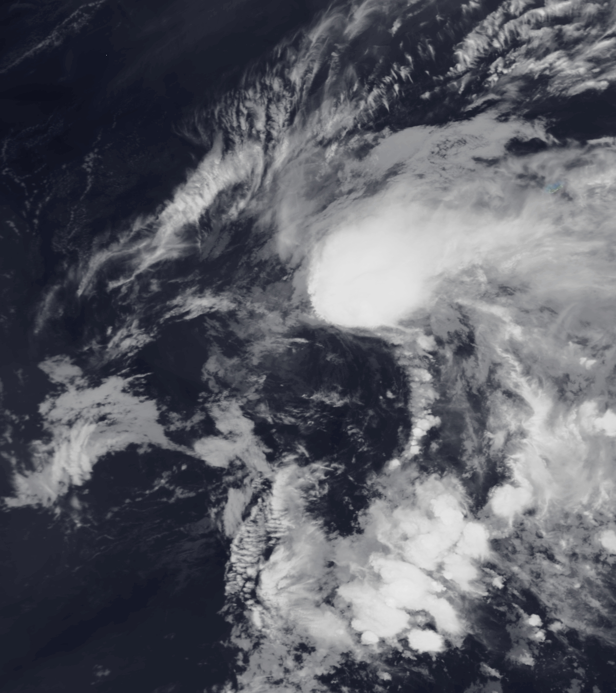 Subtropical Storm Andrea southwest of Bermuda on May 21, 2019.